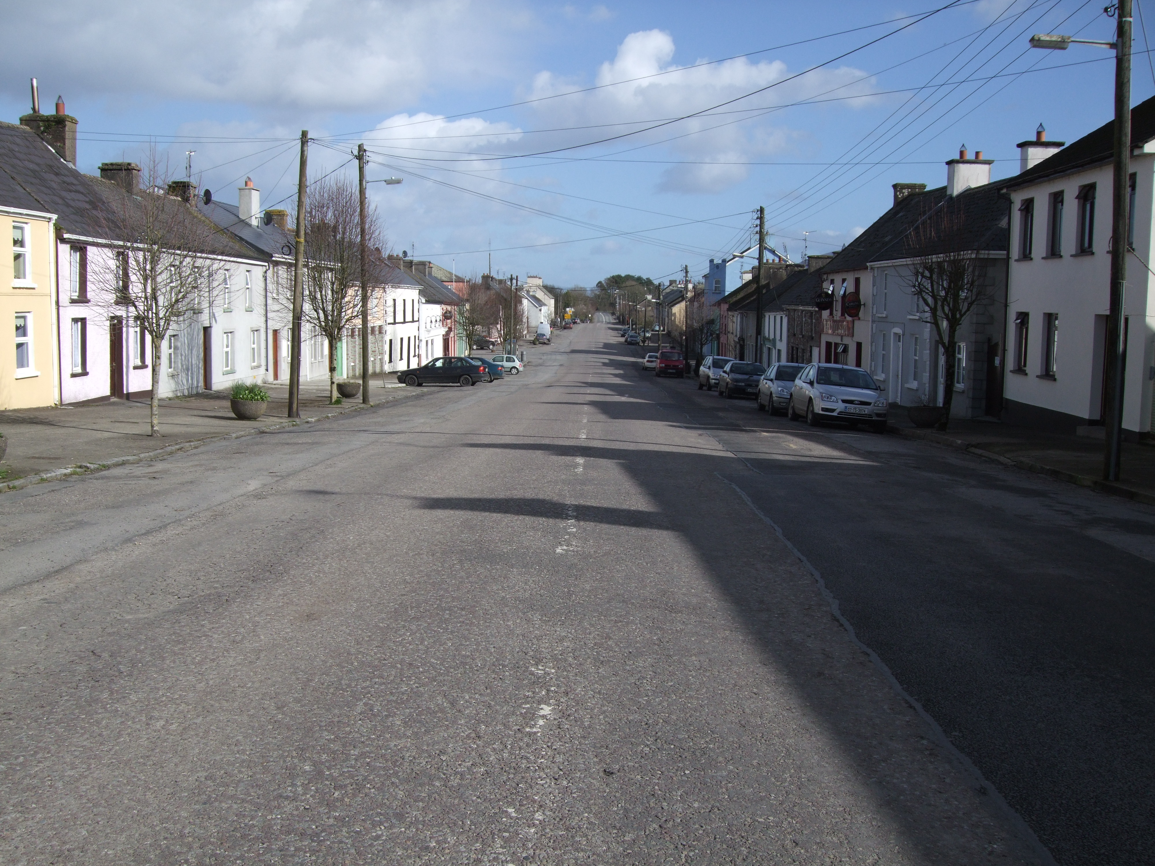 The R665 through Ballyporeen